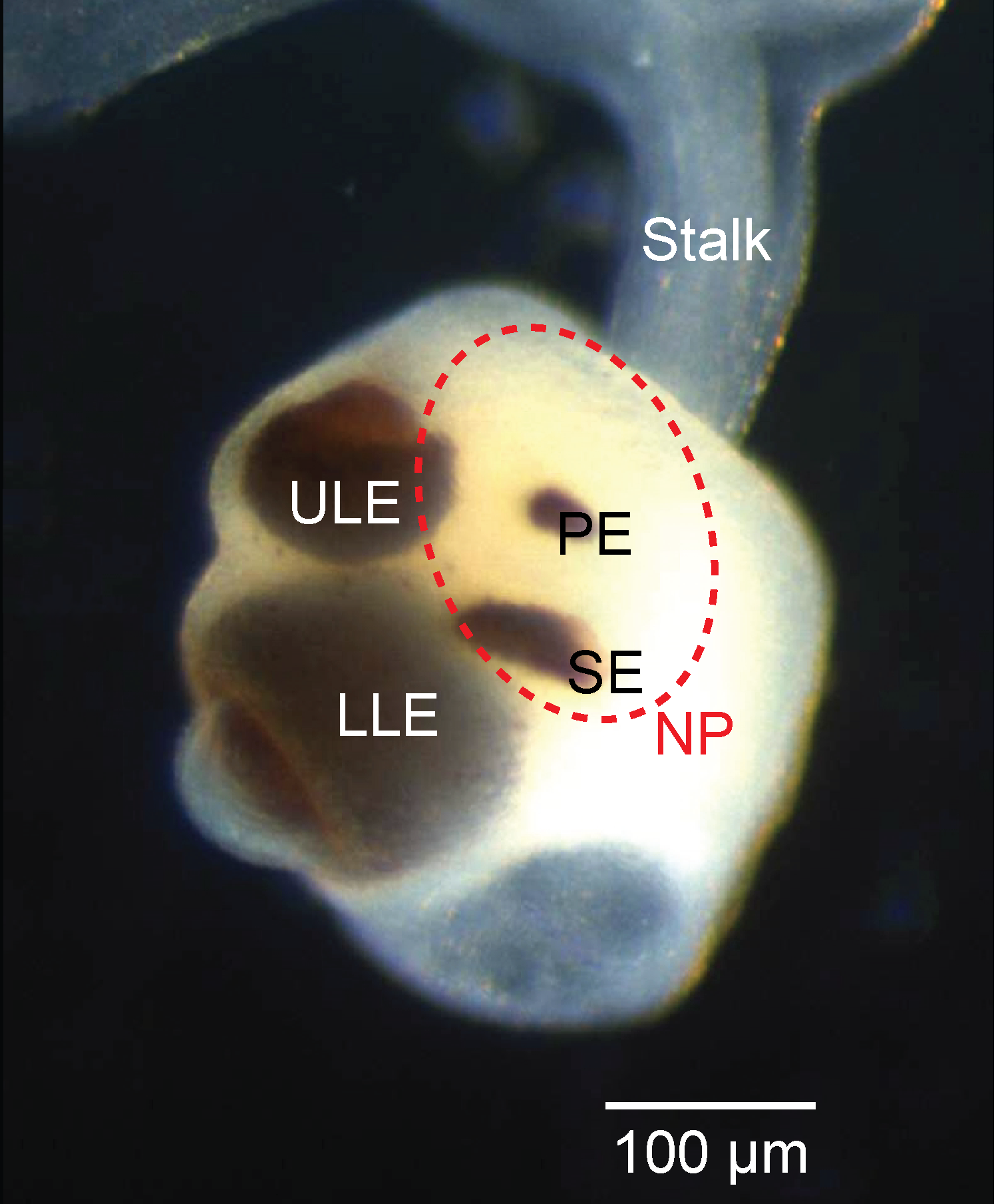 Tripedalia cystophora 's rhopalium. Each rhopalium carries six eyes of four morphological types (lower lens eye LLE, upper lens eye ULE, pit eye PE and slit eye SE) and a light sensitive neuropil (NP, red broken line). The eyes are responsible for the image formation in the animal and the light sensitive neuropil is thought to be involved in diurnal activity.